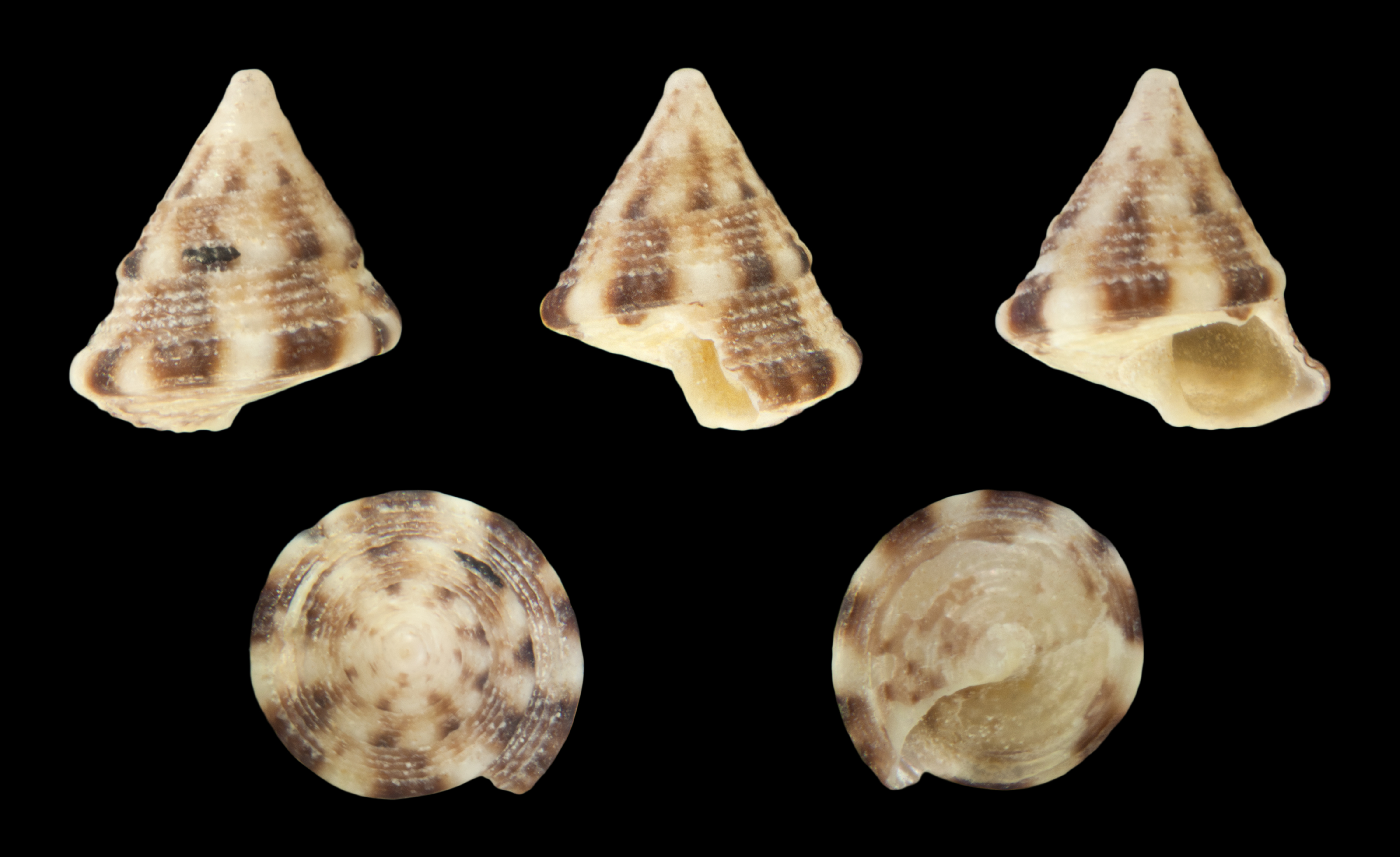 Jujubinus exasperatus f. monterosatoi Bucquoy, Dautzenberg & Dollfus, 1884; Height 0.5 cm; Originating from Punta Corrente south of Rovinj, Croatia 45°3′54.67″N 13°38′18.36″E / 45.0651861°N 13.6384333°E; Shell of own collection, therefore not geocoded.